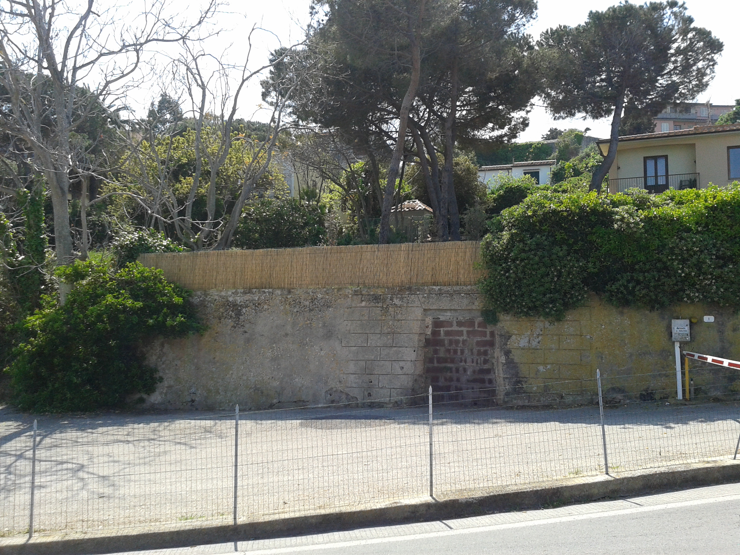 Jewish cemetery wall in viale de Gasperi 1, Portoferraio, Elba Island